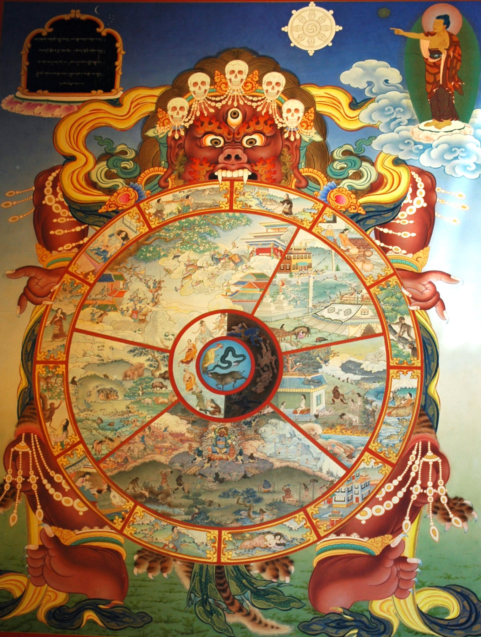 Bhavachakra showing six realms of existence in which a being can reincarnate according to rebirth doctrine of Buddhism. The outer rim shows the twelve nidanas doctrine. From Seattle Washington USA